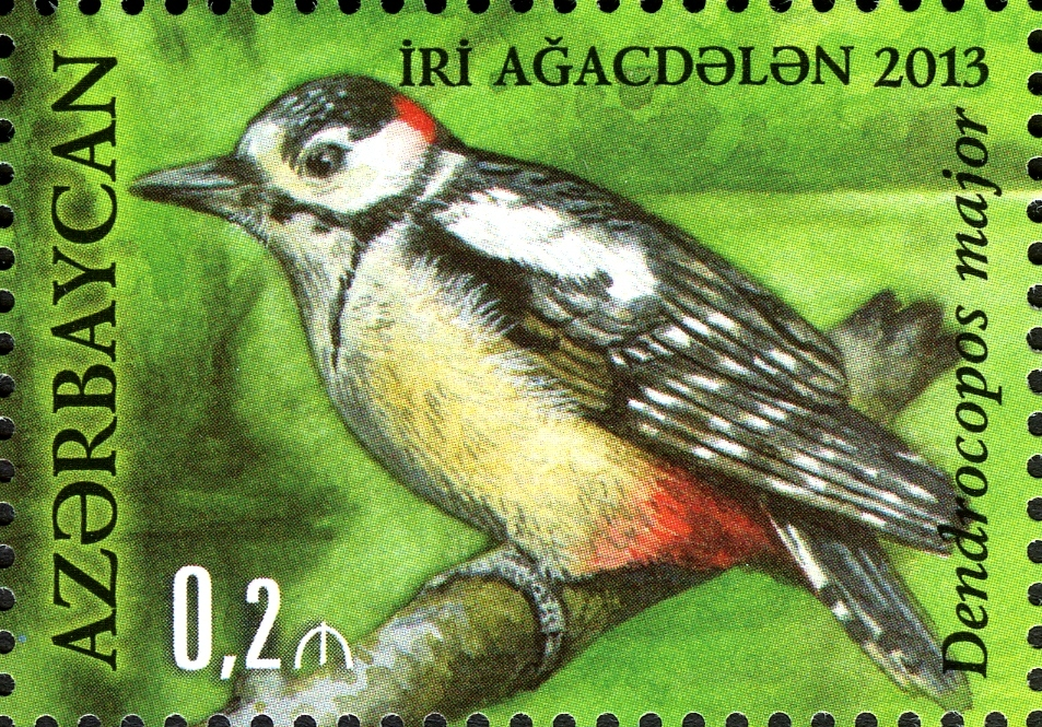 Hirkan National Park. N 1126 - 20 qapik. Great spotted woodpecker (Dendrocopos major)